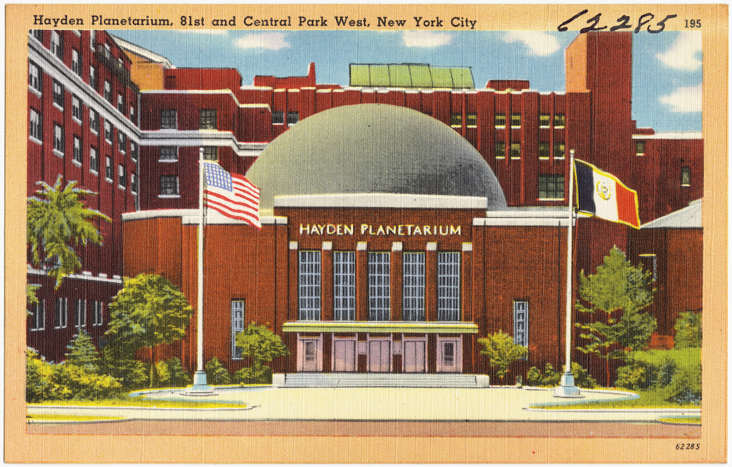 Hayden Planetarium circa 1930-1945.